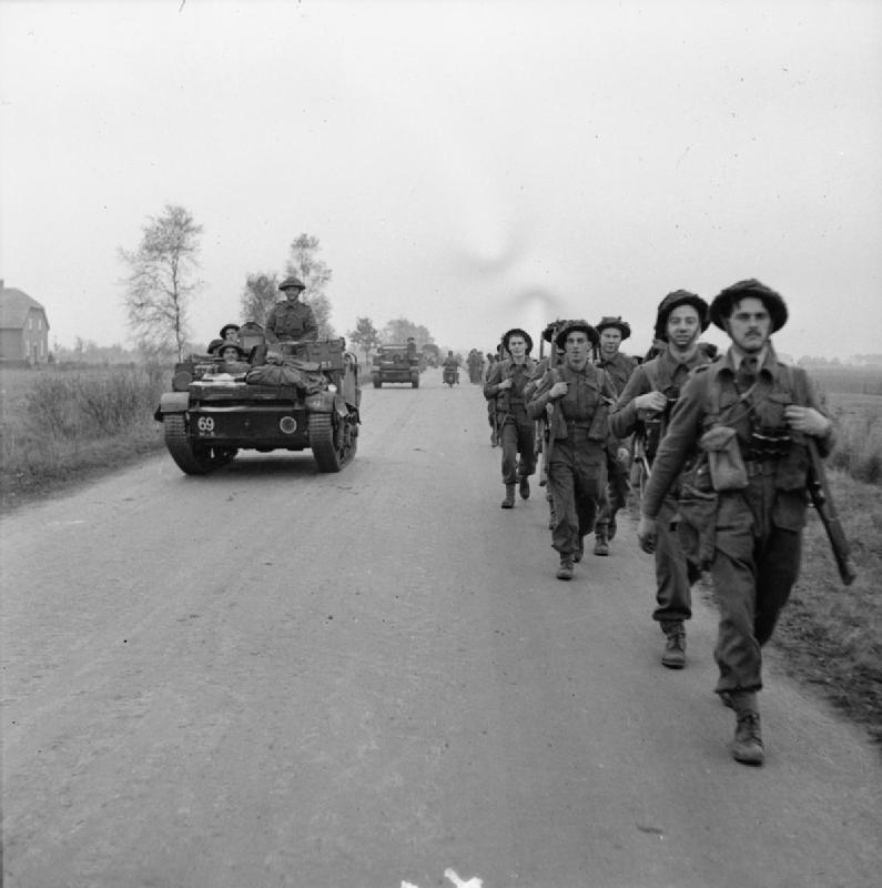 The British Army in North-west Europe 1944-45 Infantry and carriers of 2nd Argyll and Sutherland Highlanders move up for the attack on Tilburg, 27 October 1944.